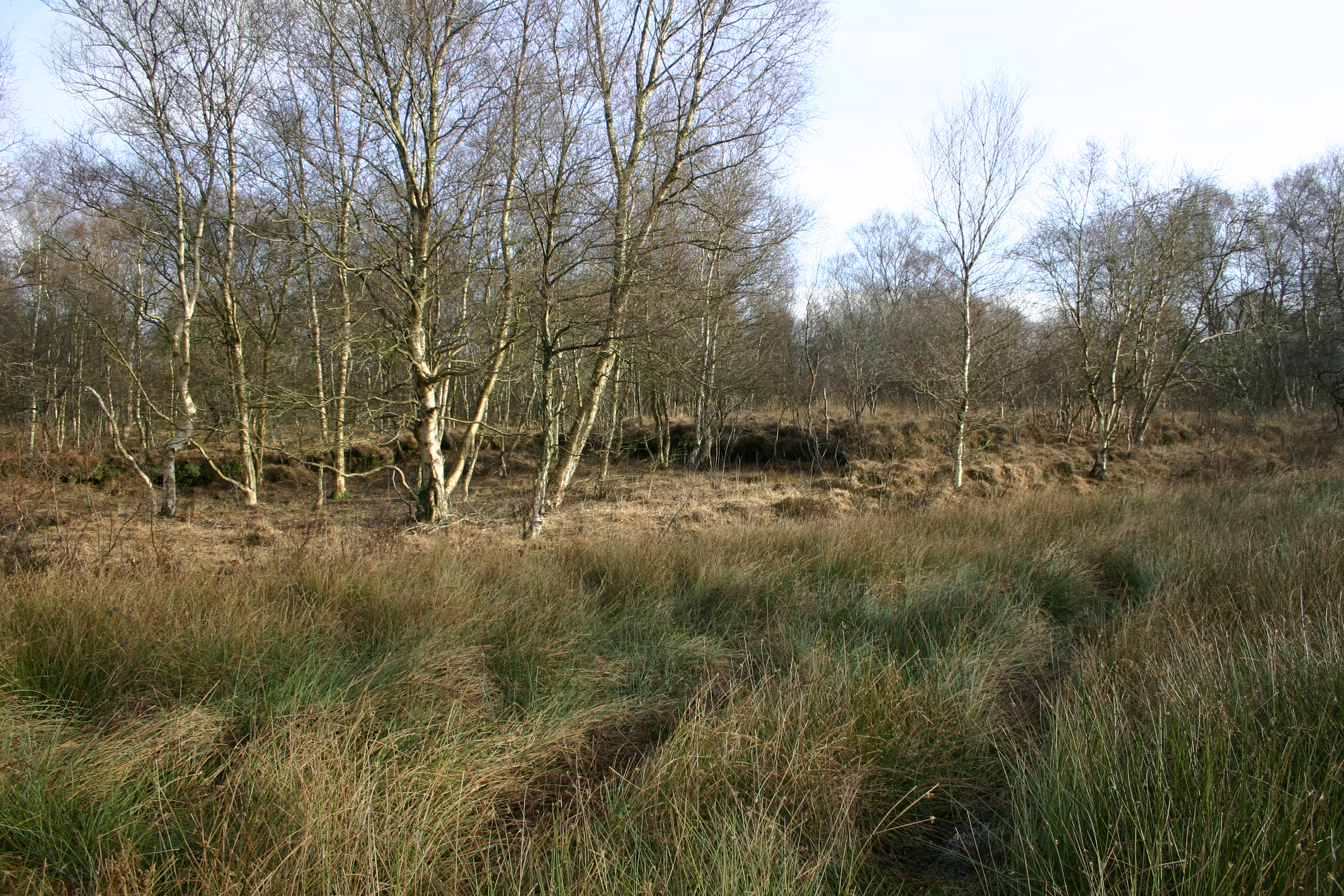 Fen and heathland vegetation in the Filsum Moor preserve, district of Leer, East Frisia, Germany